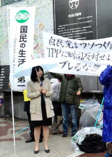 Yukiko Miyake, Head of the 7th Election Campaign Office for the House of Councillors Proportional Representation, People's Life Party, performed street oratory about the Trans-Pacific Partnership in Shibuya Ward, Tōkyō Metropolis on April 21, 2013.